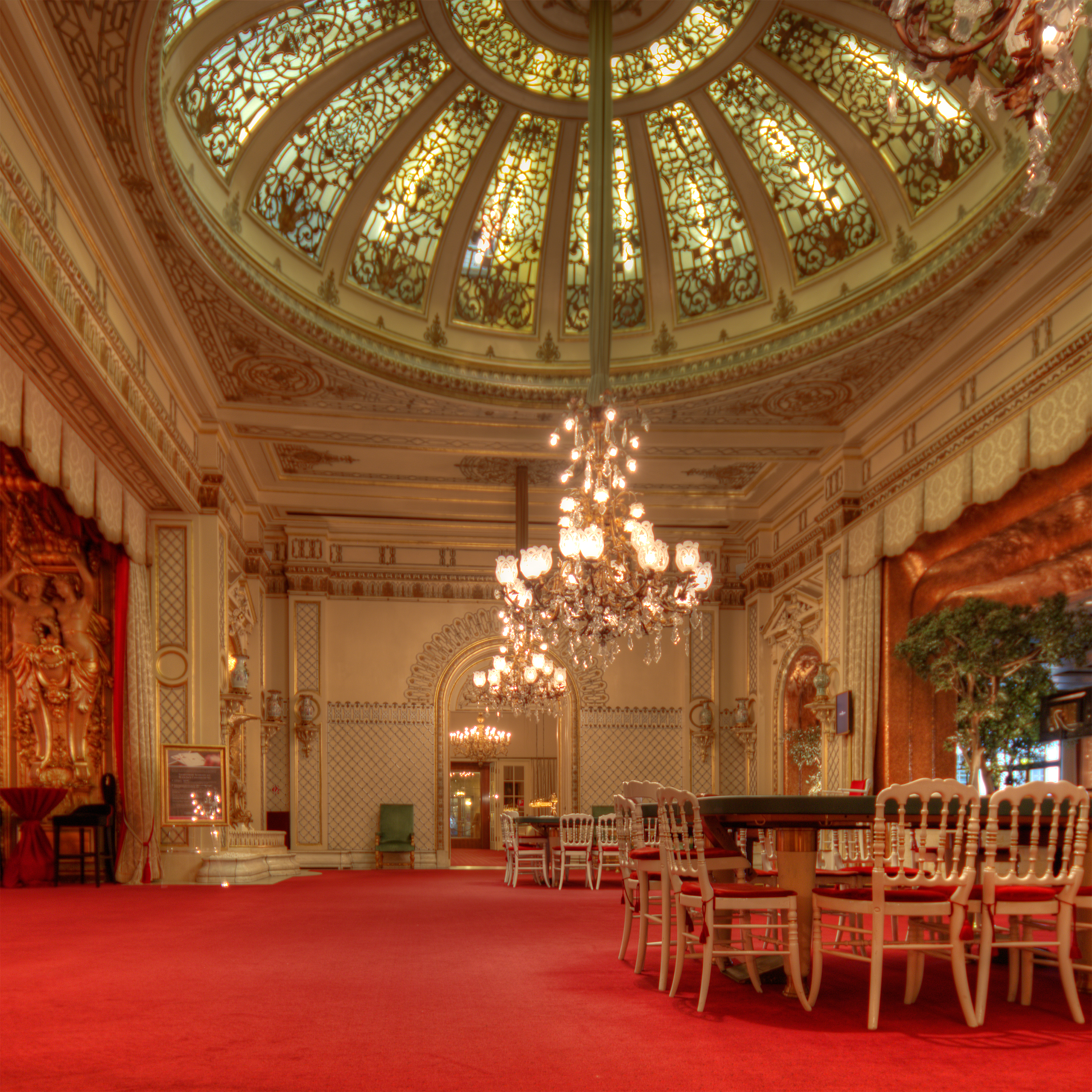 The Casino in Baden-Baden (BW, Germany).